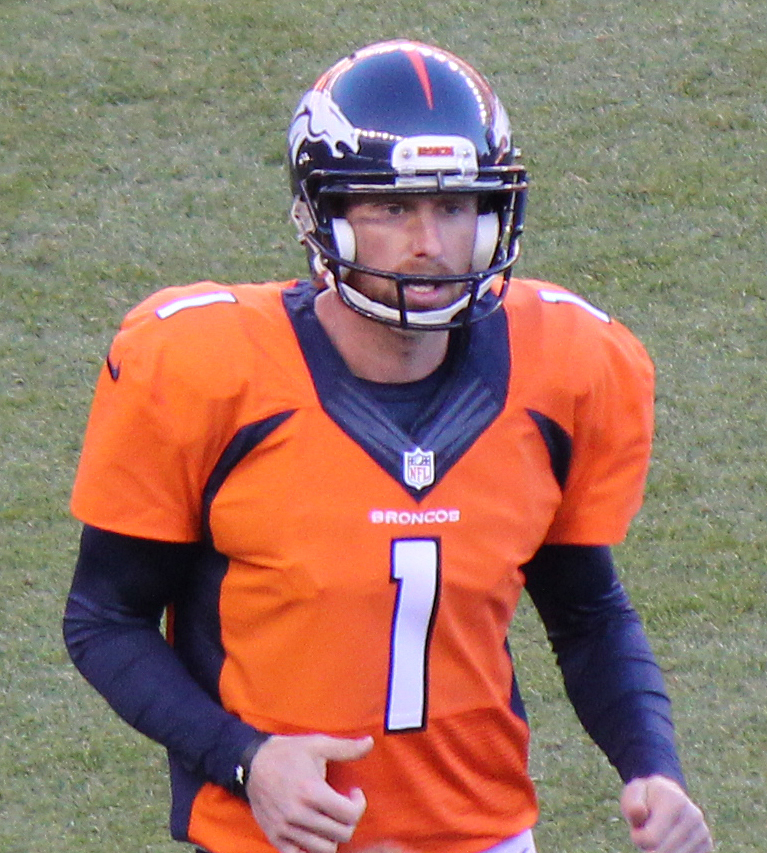 Connor Barth, a player on the National Football League.